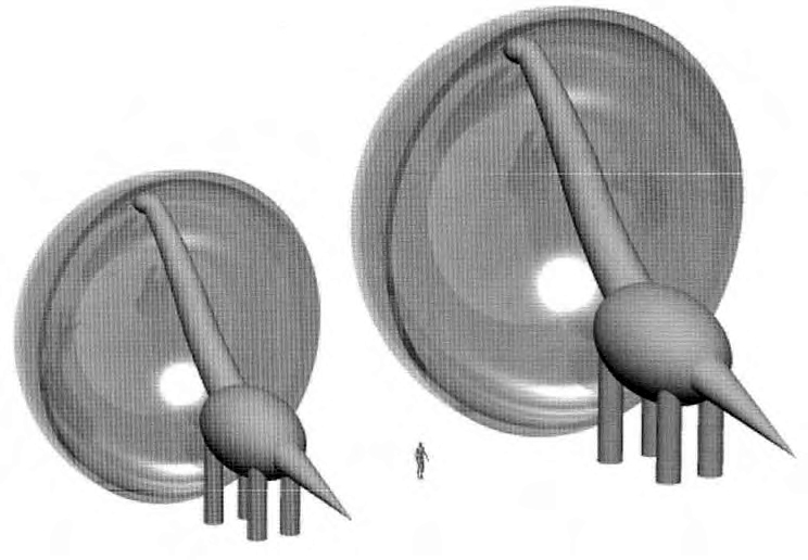 Feeding envelopes of Brachiosaurus (left, model based on specimens now classified as Giraffatitan) and Sauroposeidon (right). The shapes of the feeding envelopes were probably complex; we have deliberately simplified them for the purposes of this illustration. Because volume increases with the cube of the linear dimension, the increase in neck length of 25 to 33% in Sauroposeidon would have effectively doubled the volume of its feeding envelope over that of Brachiosaurus (1.25~= 1.95, 1.33~= 2.35). The human figure is 1.8 m tall.